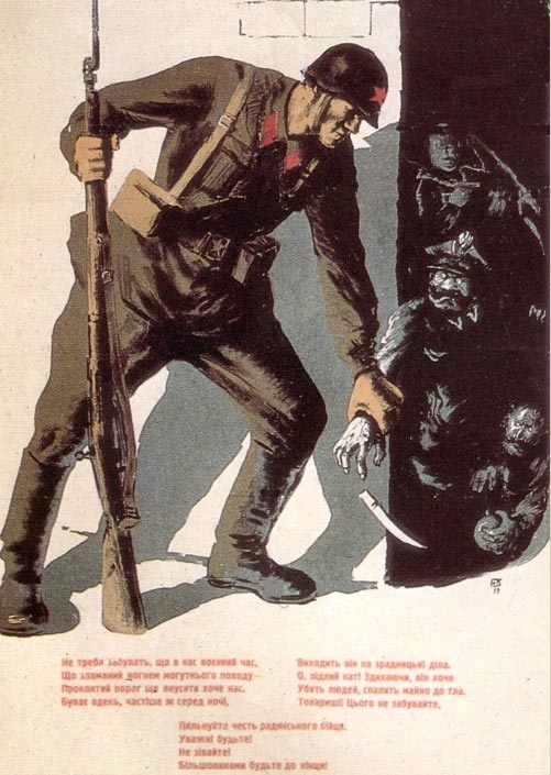 Soviet WWII propaganda poster urging vigilance. Note the villain in the shadow wearing a Polish parade uniform